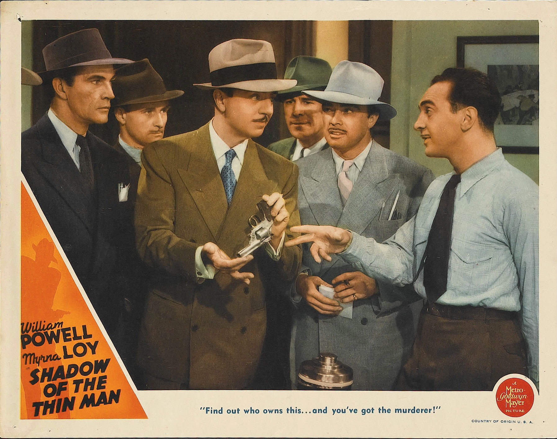 Lobby card for the 1941 film Shadow of the Thin Man.